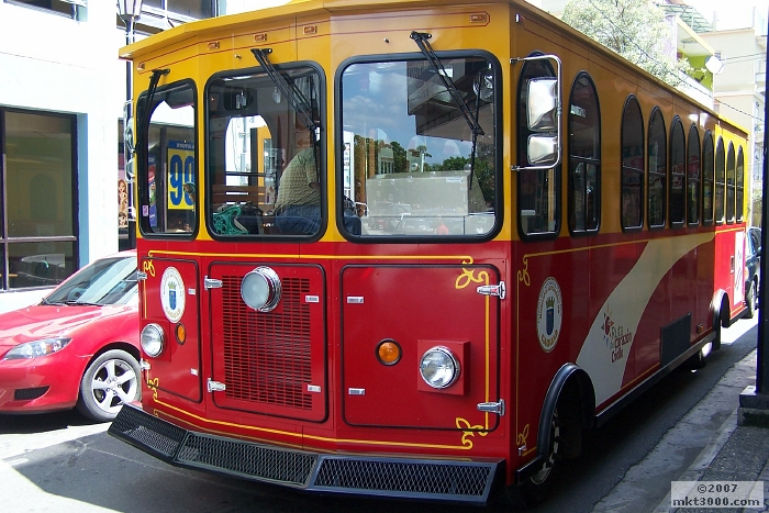 Caguas Municipal Trolley (a trolley-replica bus). Photograph taken on 29 Sept 2007 in Caguas, Puerto Rico.